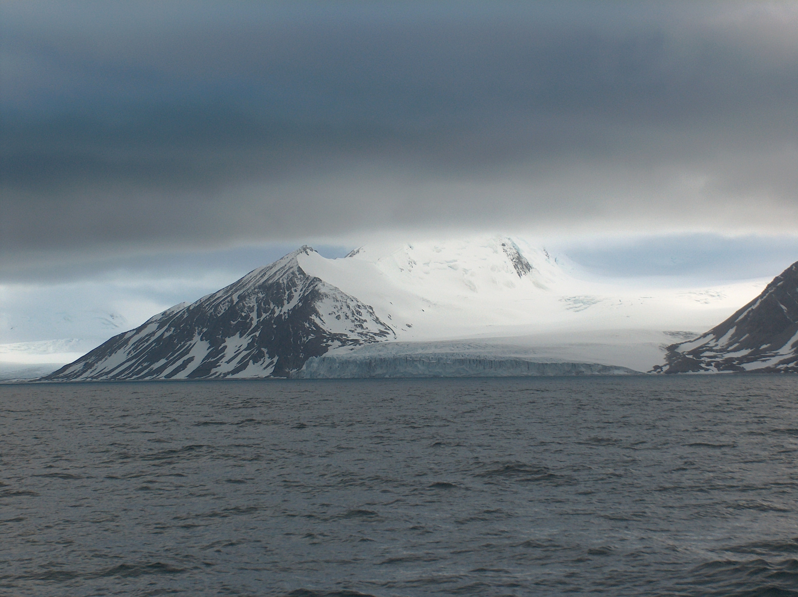 Photo of Charity Glacier, Livingston Island, Antarctica taken from ROU Vanguardia